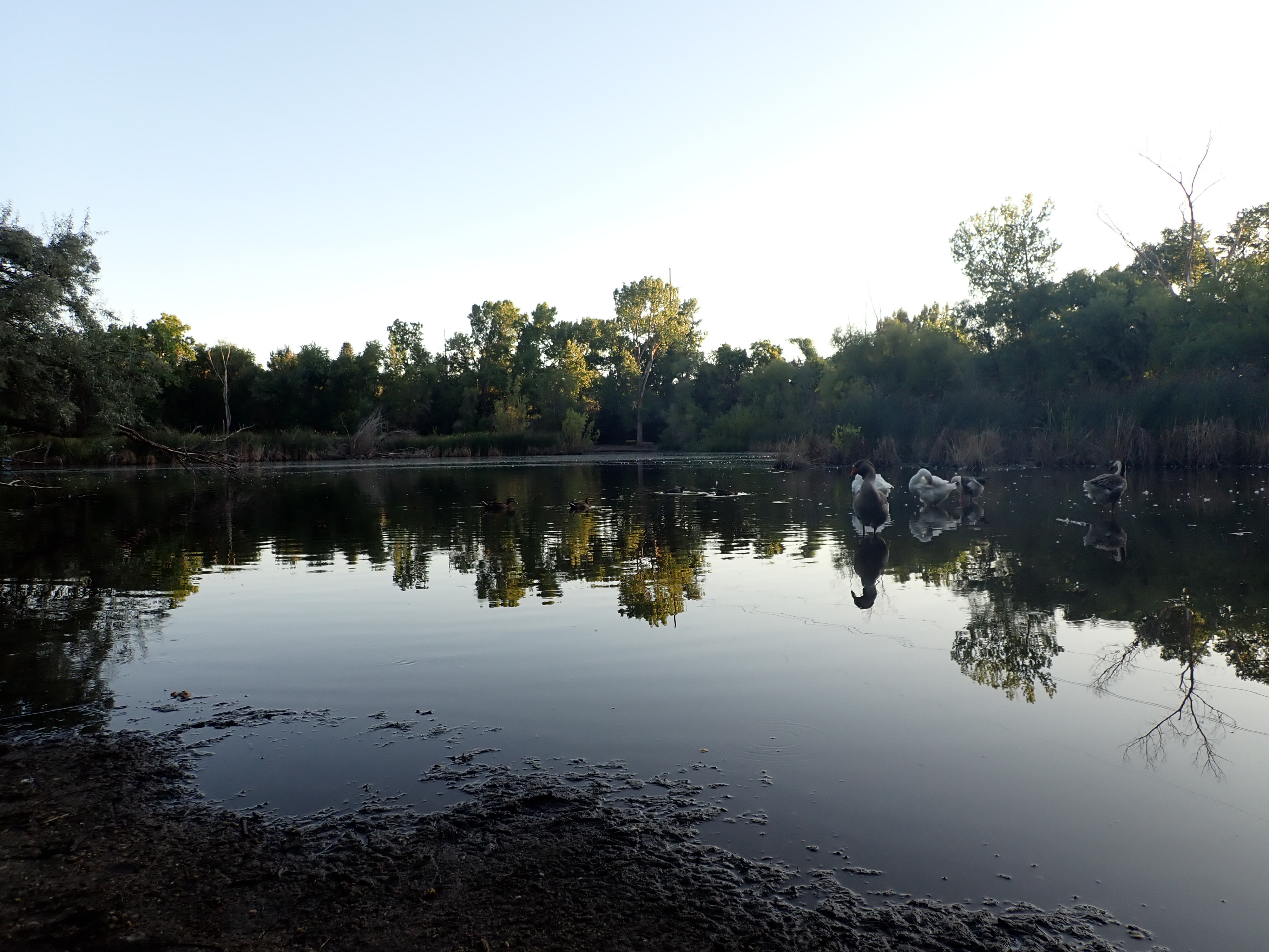 Pond in Beus Park, Ogden, Utah, USA